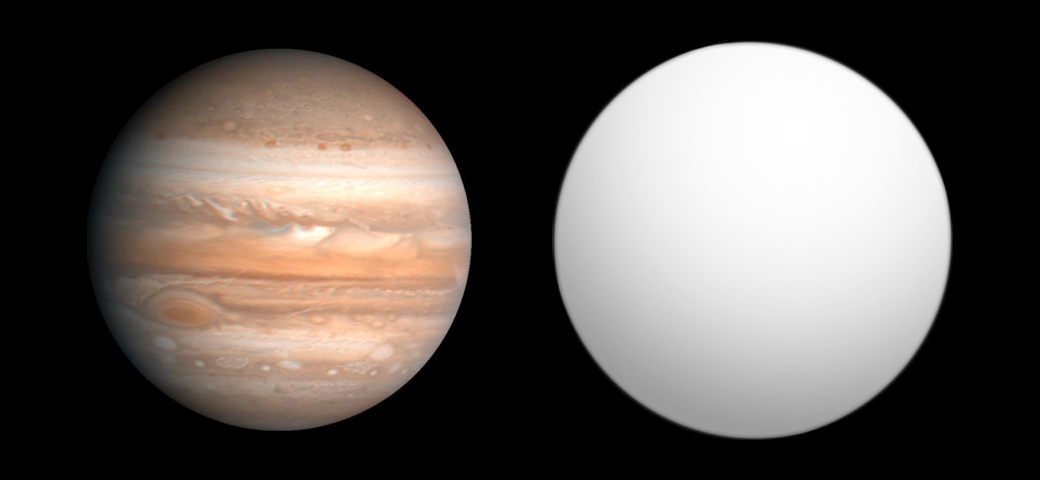 Comparison of best-fit size of the exoplanet WASP-8 b with the Solar System planet Jupiter, as reported in the Open Exoplanet Catalogue[1] as of 2010-09-30. ↑ Open Exoplanet Catalogue (2010-09-30). Retrieved on 2010-09-30.